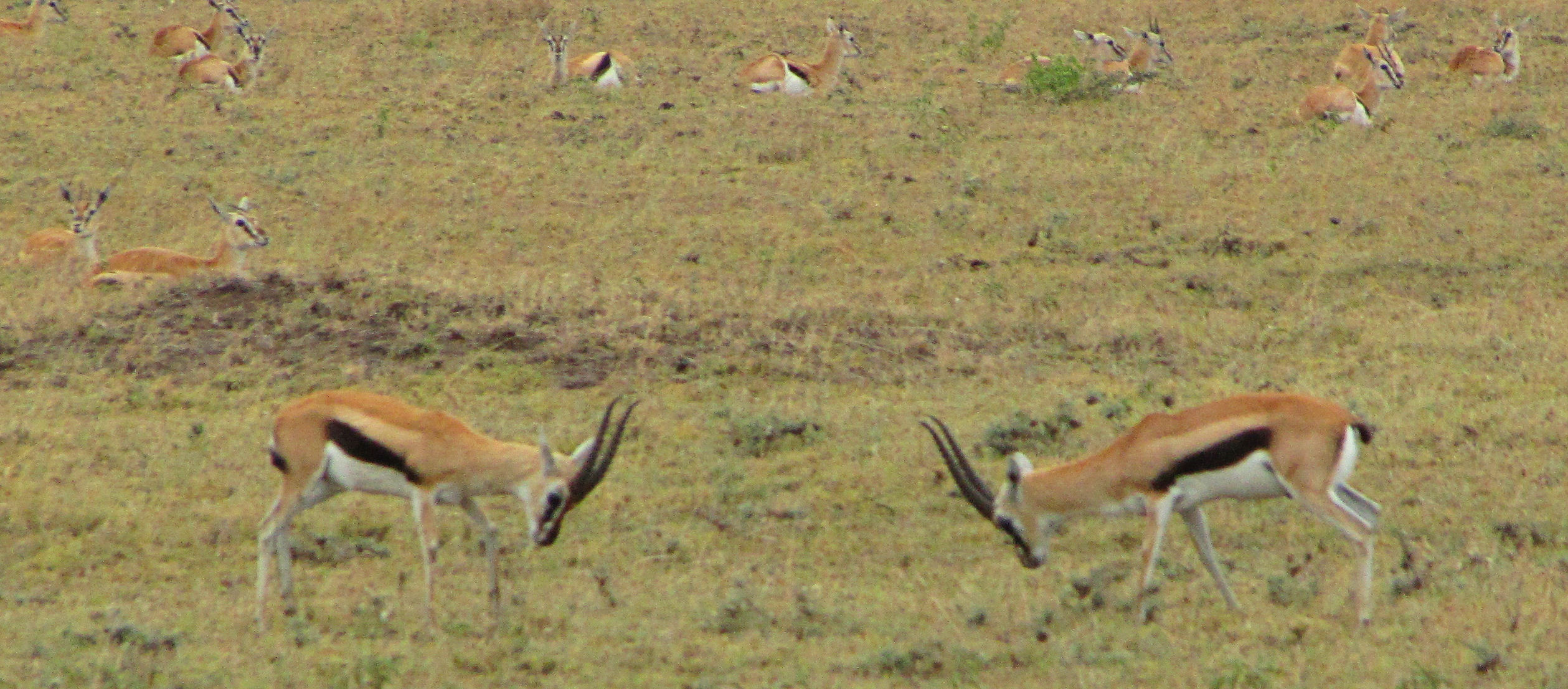 Two male Thomson's Gazelles (Eudorcas thomsoni), fighting, Serengeti National Park, Tanzania